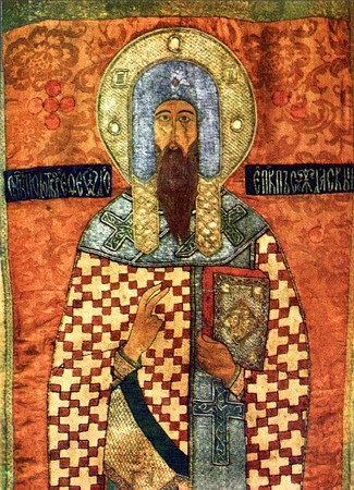 Saint Feodor of Rostov